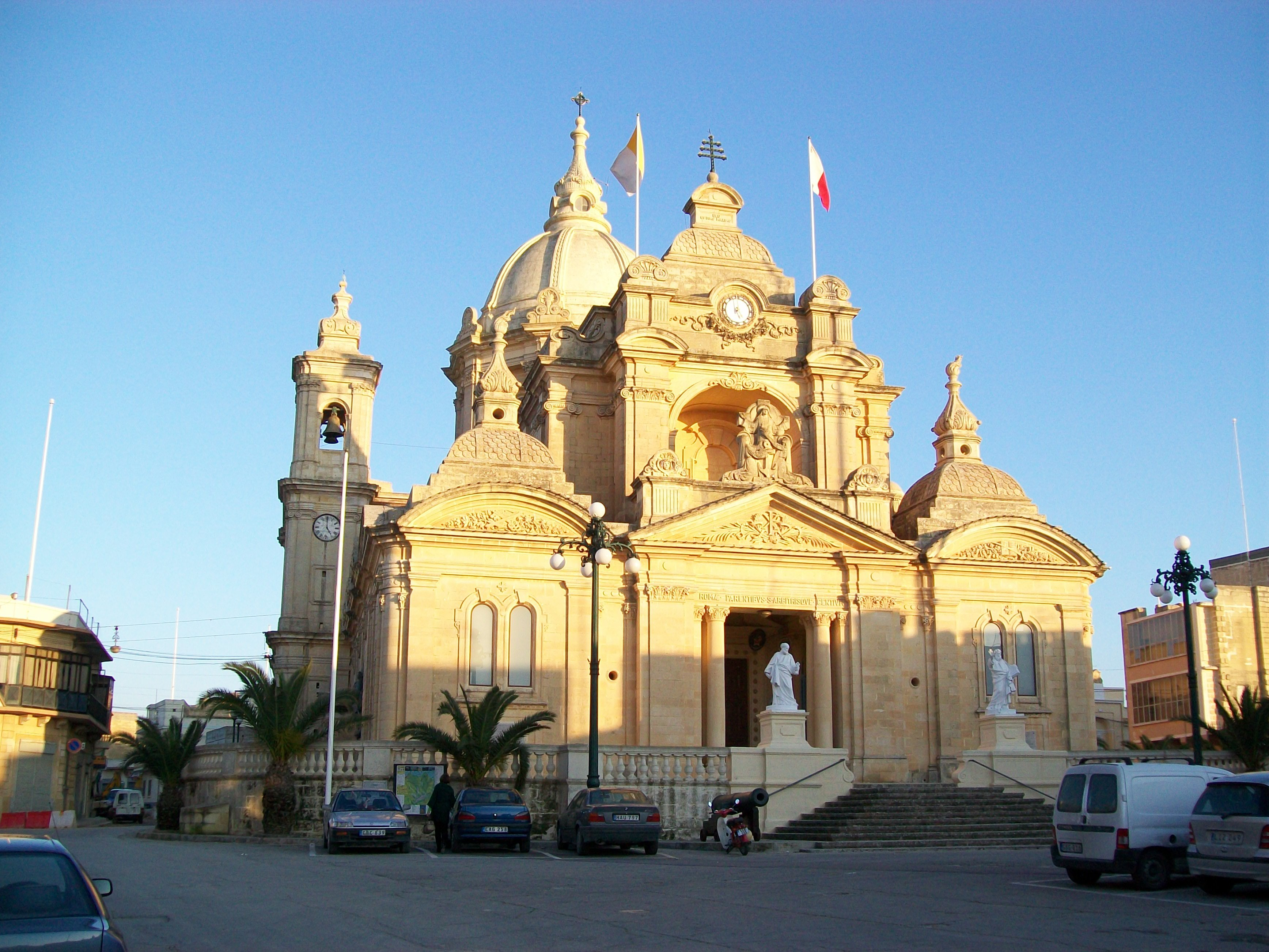 St. Peter and St. Paul Basilica in Nadur (Gozo)